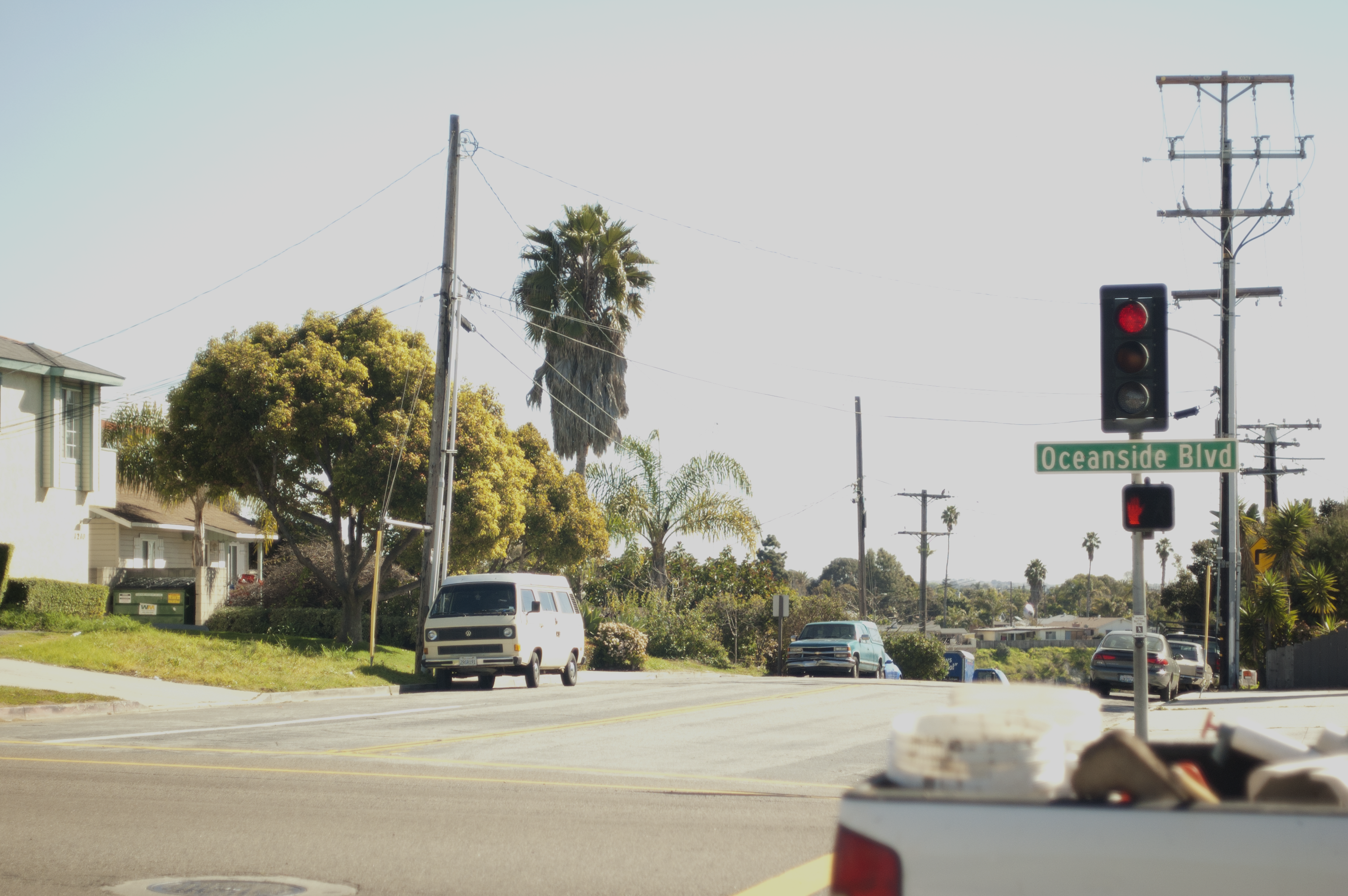 Photo looking south over Oceanside Blvd in Oceanside, California.